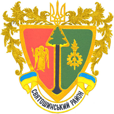 Coat of arms of svjatoshinskyi Raion in Kiev, Ukraine.